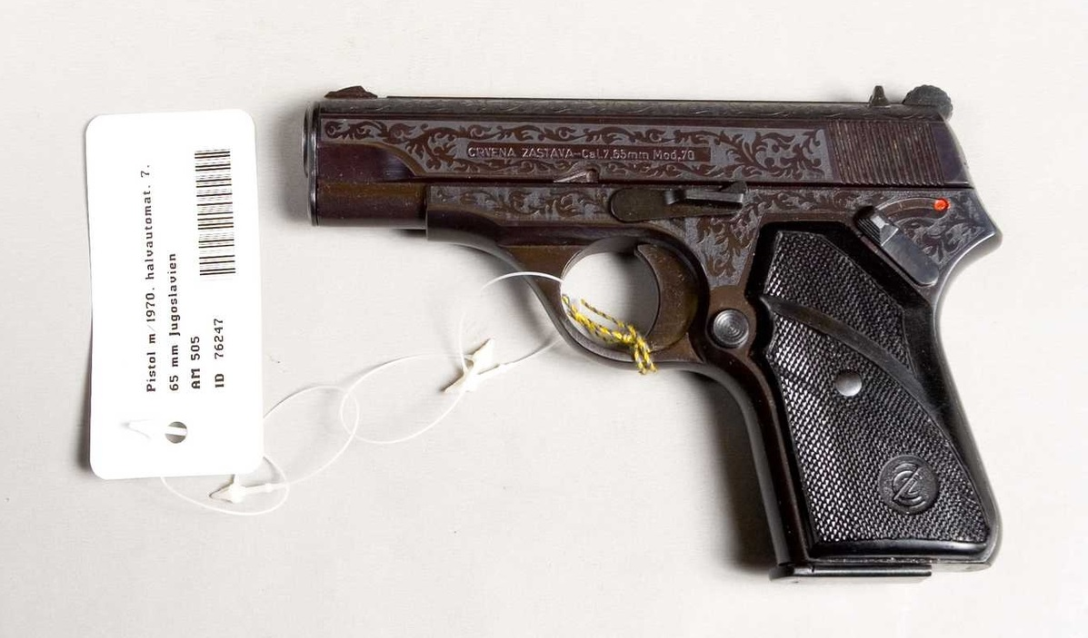 A Zastava M70 pistol, the former sidearm of the Yugoslav People's Army and police. This particular pistol was presented as a gift to Swedish Lieutenant general Carl Eric Almgren, Chief of the Swedish Army, by Stane Poticar, Chief of Staff of the Yugoslav People's Army in 1975. It was donated to the Swedish Army Museum in the same year by Almgren.